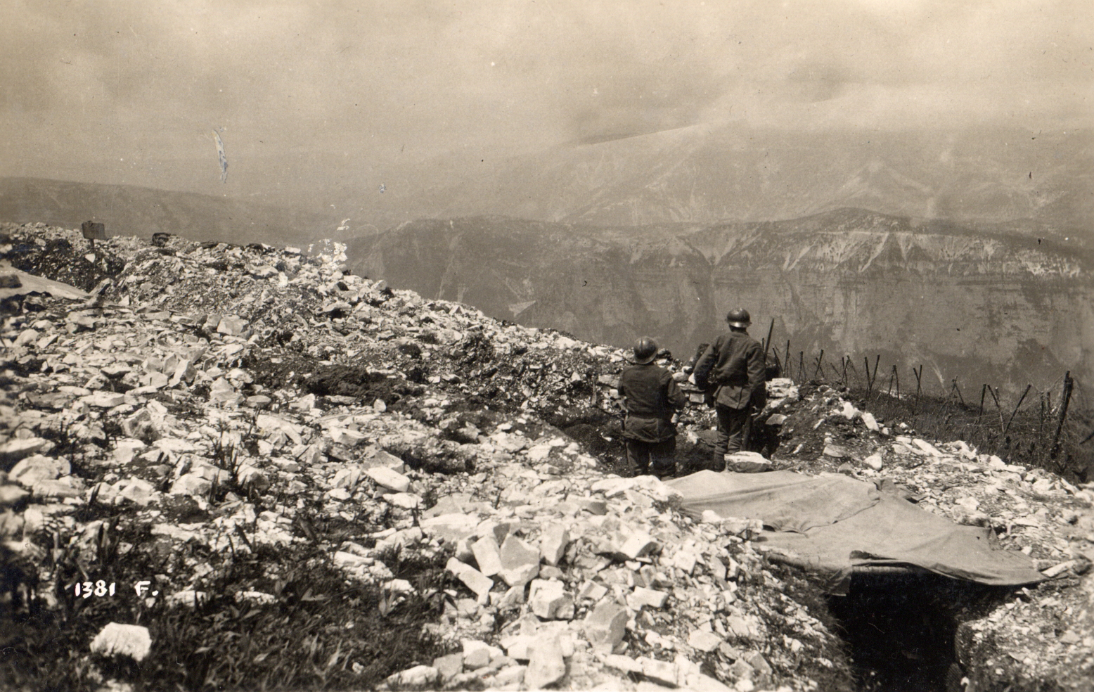 World War 1 - Italian Army: Col Moschin - Italian trenches on the summit